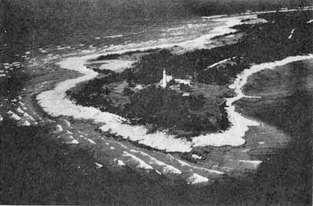 Seul Choix Point, Schoolcraft Couty MI from the air, c. 1959. Seul Choix Point Lighthouse in the foreground